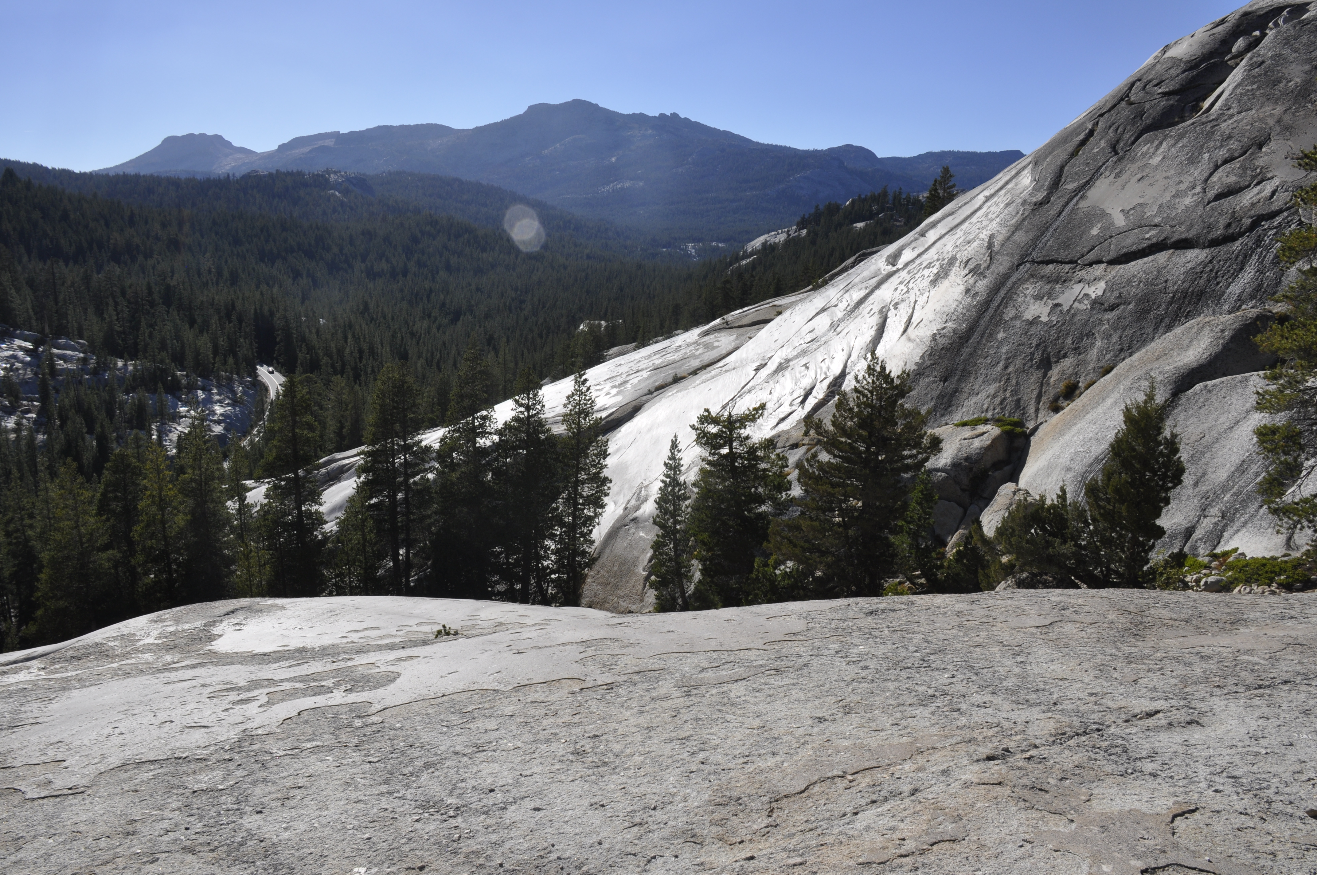 Tuolumne Meadows section of Yosemite National Park. Daff Dome descent